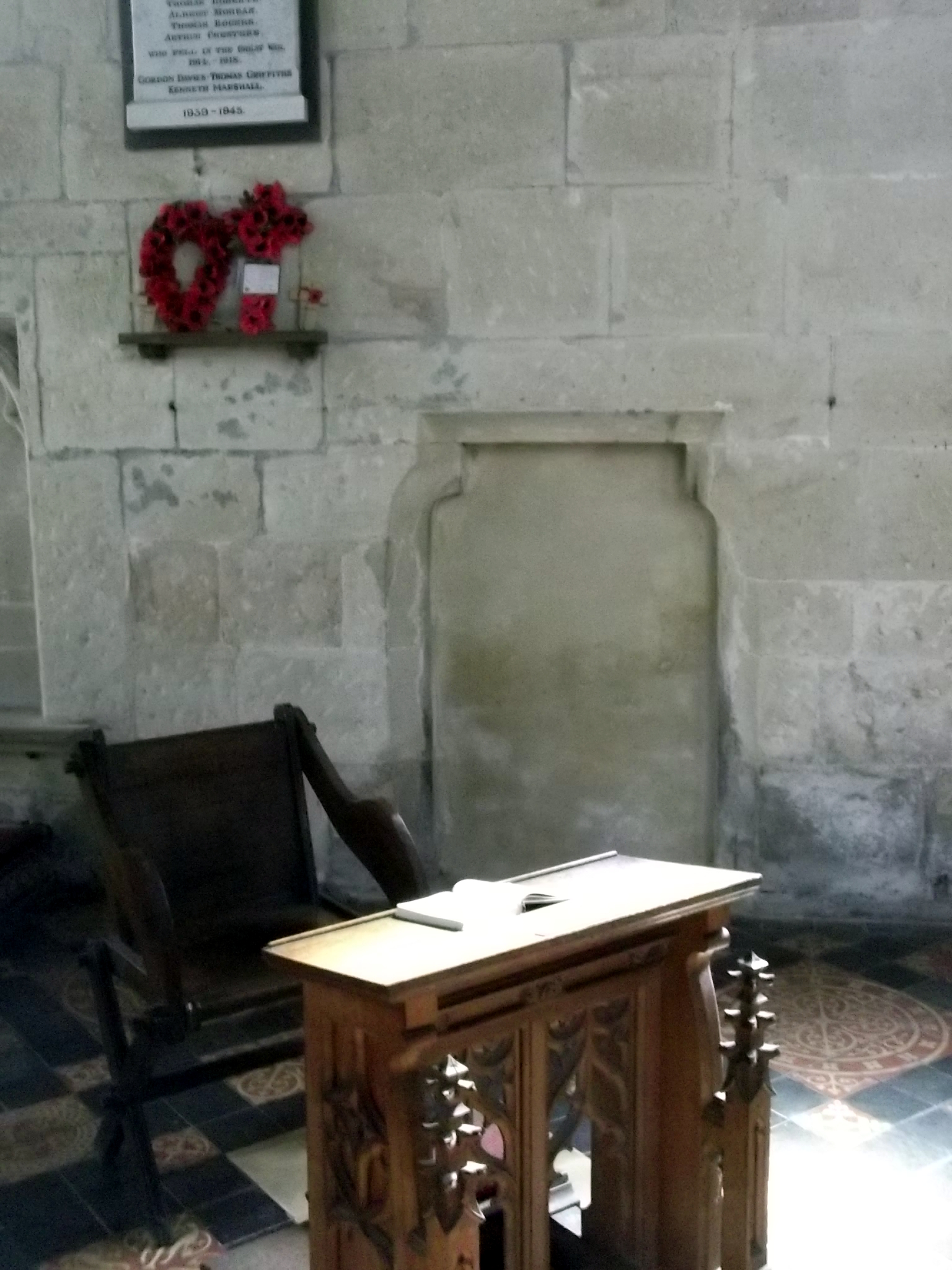 Vestige of doorway intended to connect church building to former college residence, south side of St Mary Magdalene's Church, Battlefield, Shropshire.